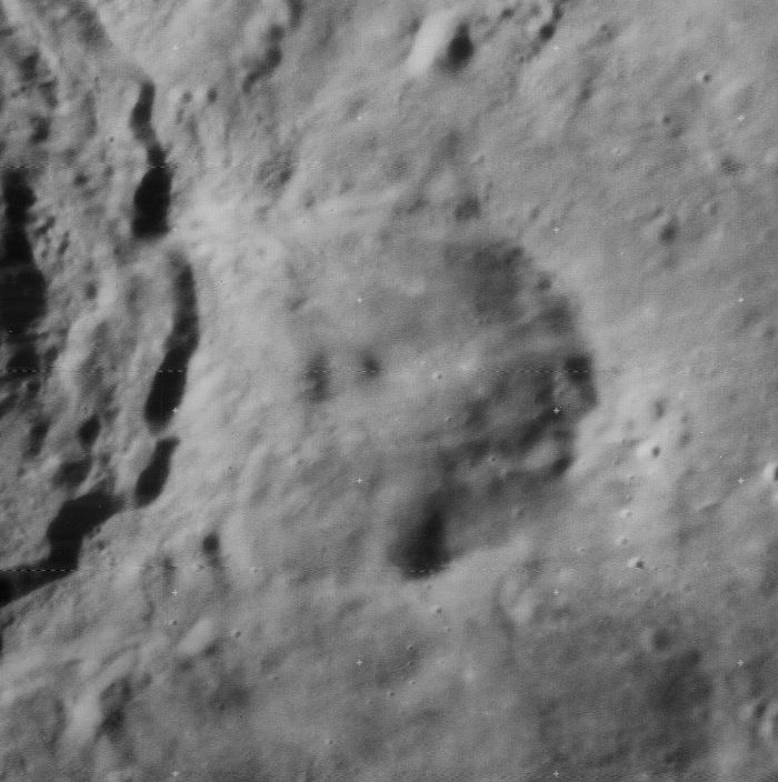 Mitchell crater, on the east rim of Aristoteles crater, on the moon.